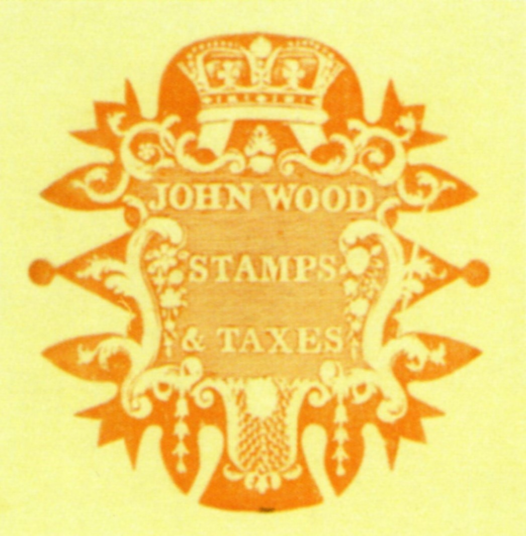 John Wood embossing die.